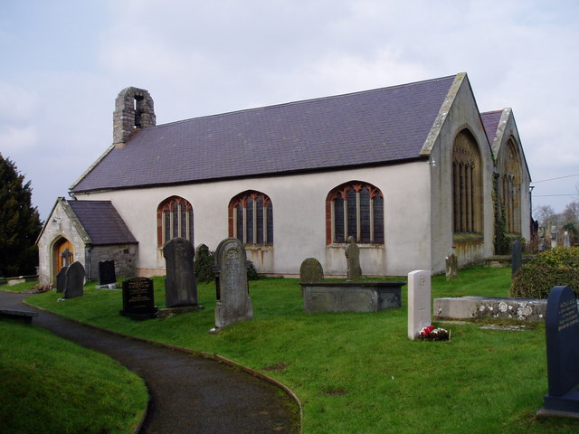 St Cynhafal's Church. A small double-naved church at Llangynhafal, typical of the Vale of Clwyd.